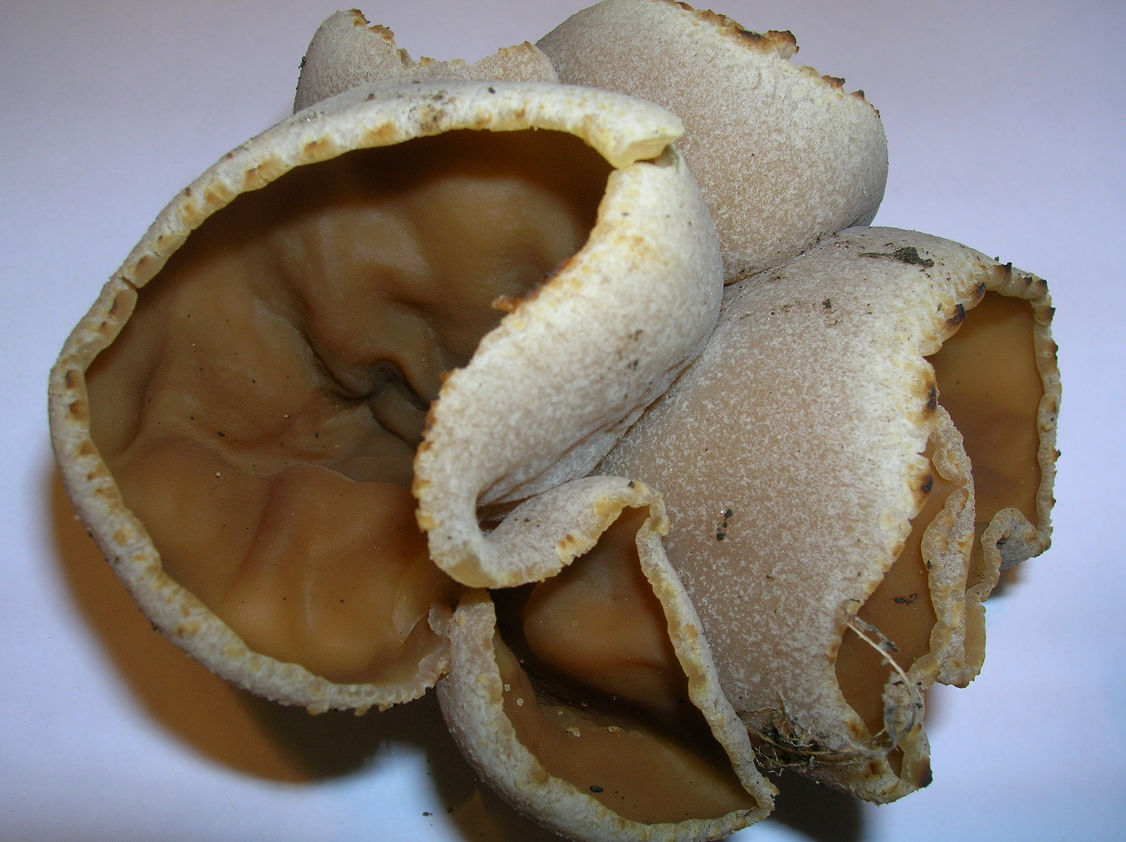 Peziza cerea, a cup mushroom, Eglinton, Ayrshire, Scotland.